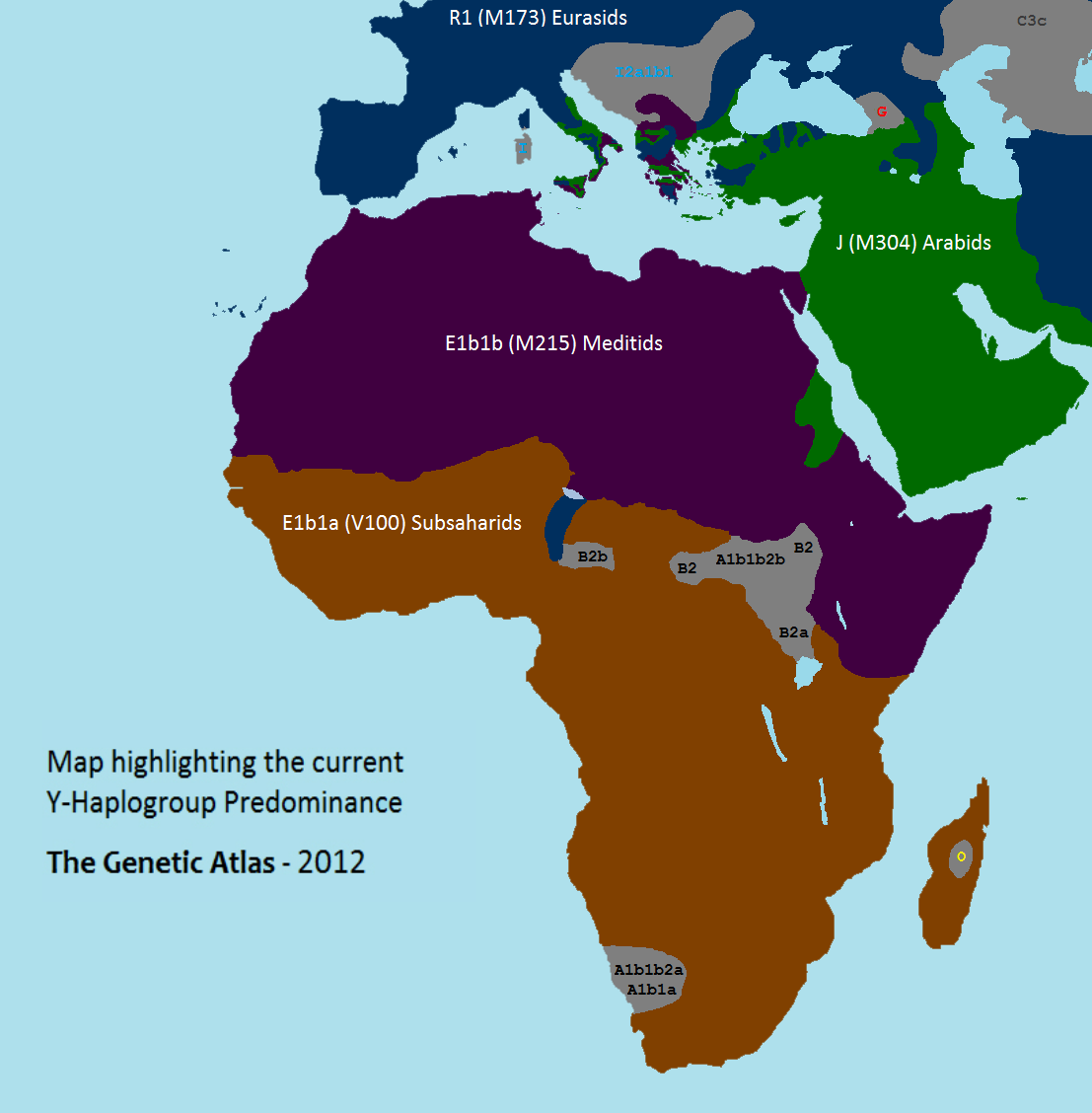 Haplogroup E (Y-DNA) (ref. Genetic Atlas)